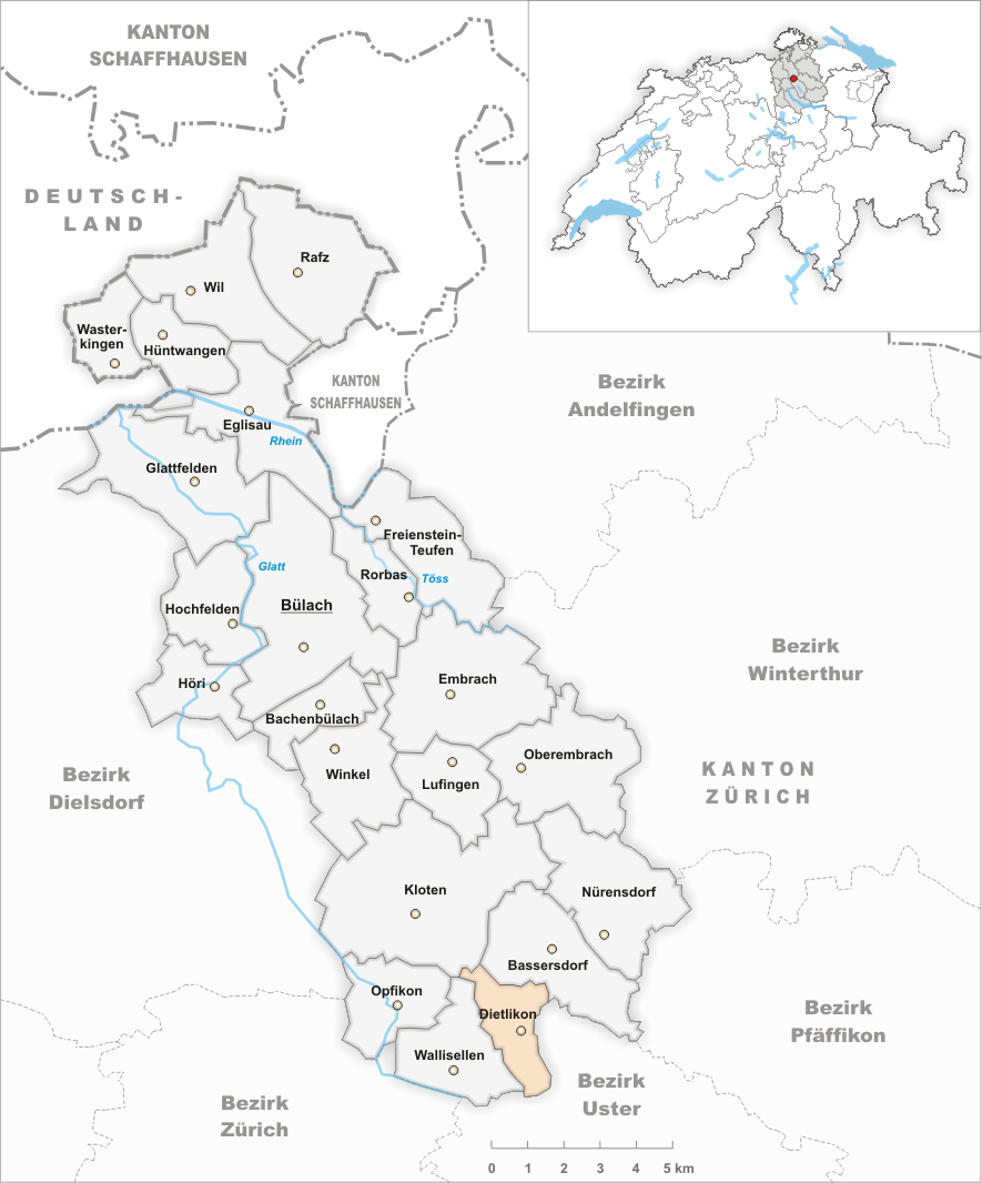 Municipality Dietlikon